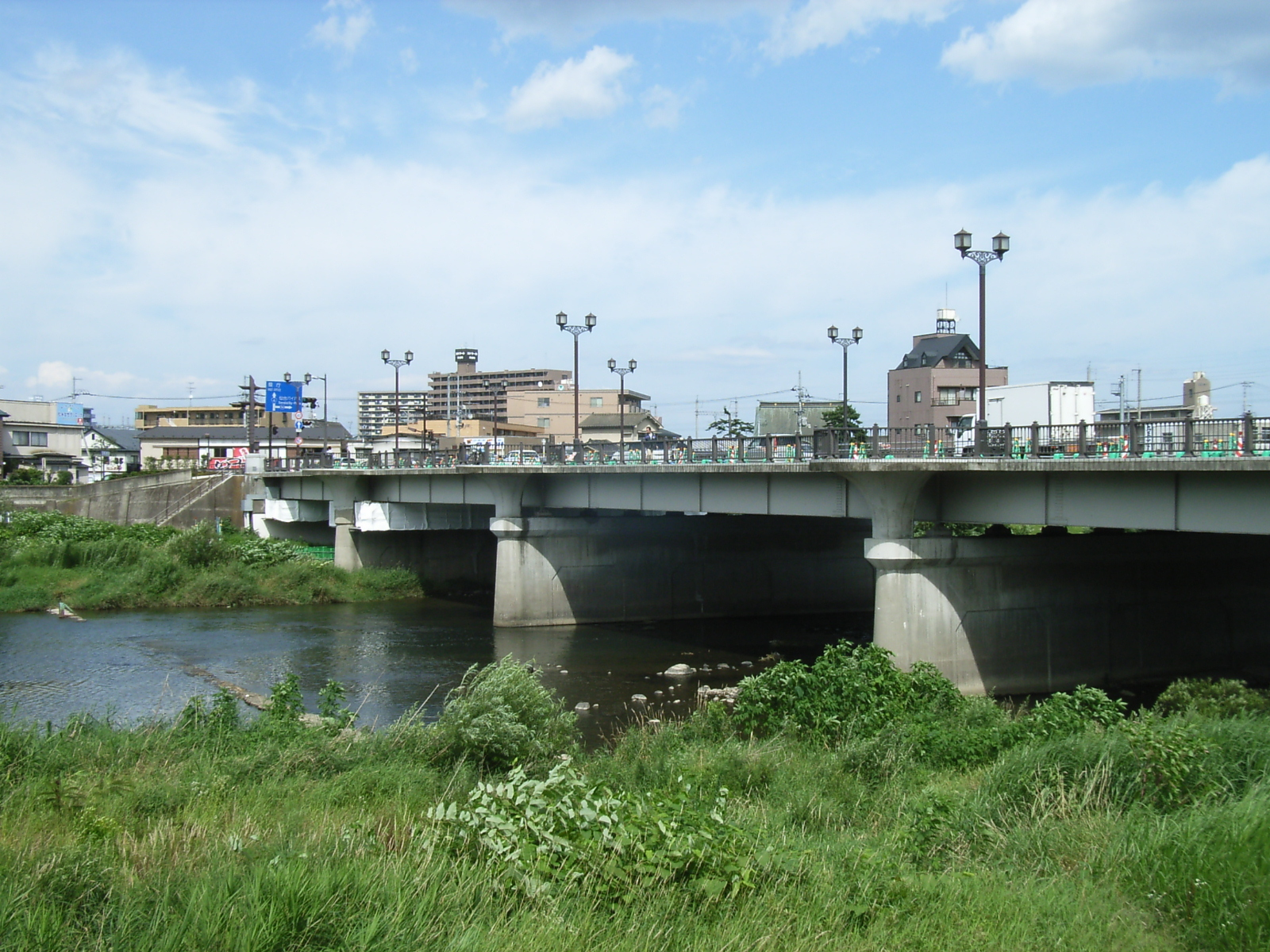 Hirose Bridge and Hirose River. Sendai, Miyagi prefecture, Japan. Eastward from the southwest bank (right bank) of the river.